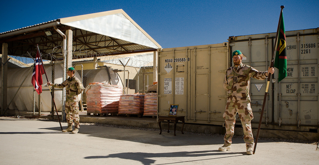 Honour guard of colleauges from Telemark Battalion.